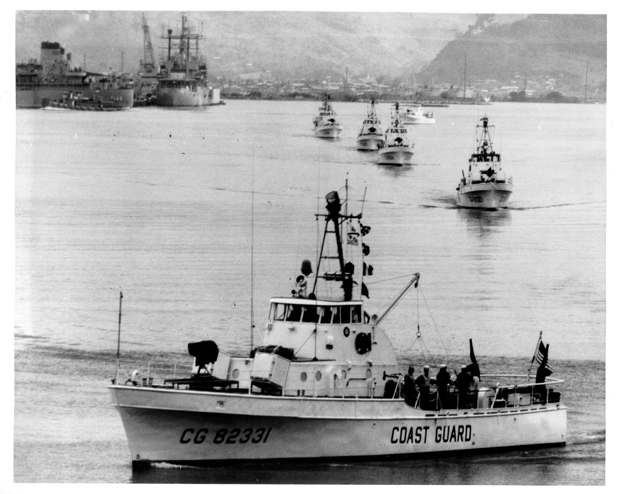 Division 11 of Coast Guard Squadron One departs Subic Bay Naval Base for Vietnam, 17 July 1965. USCGC Point Marone (WPB-82331) is in foreground.